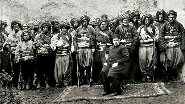 Turkish basibozuk in Bulgaria 1877-78